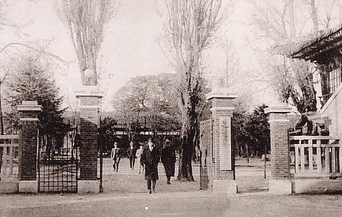 Chusei-Hoku(Chungcheongbuk) Provincial Office